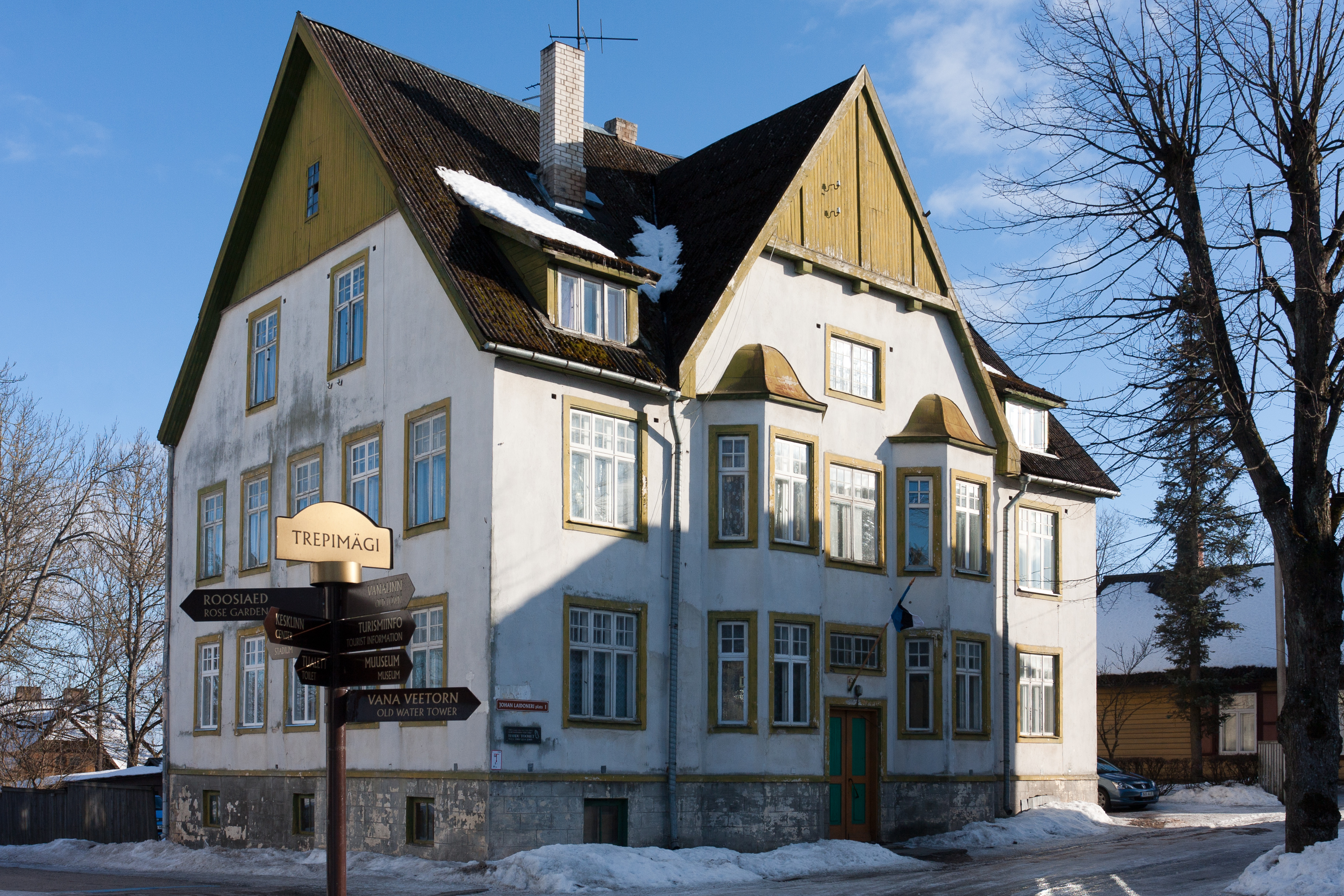 A house in Viljandi, Estonia.